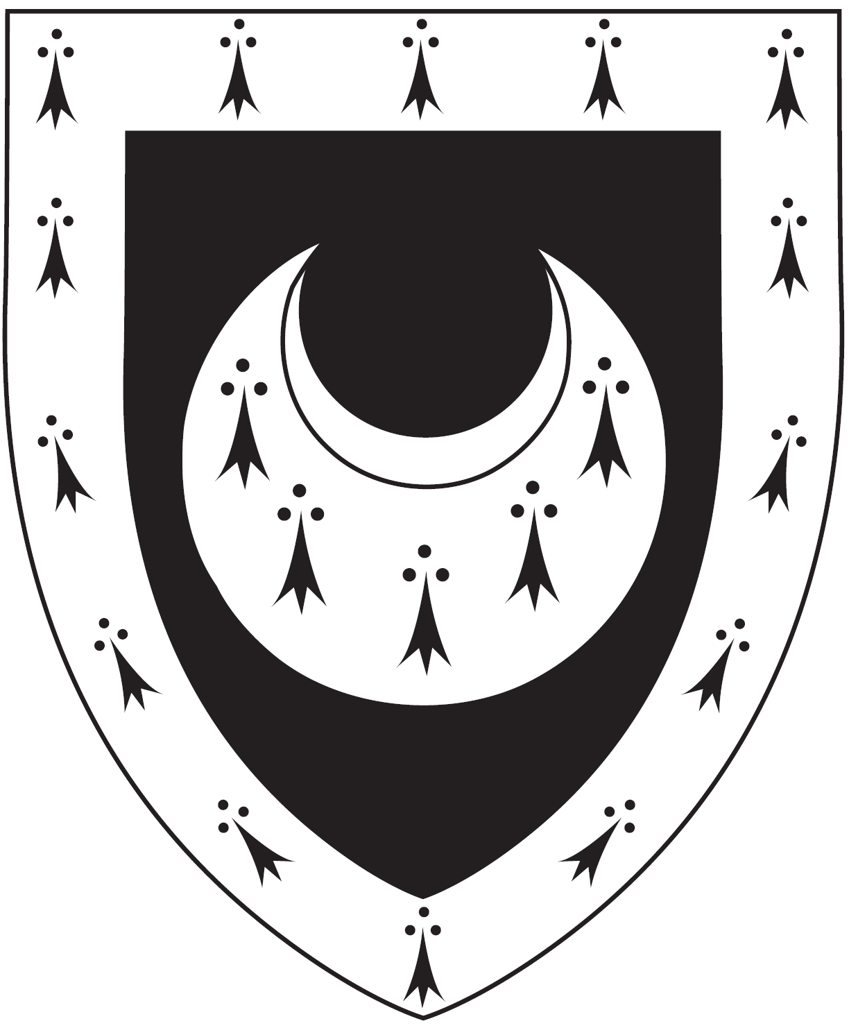 Arms of Bateman, as used by William Bateman (d.1355), Bishop of Norwich 1344-55, founder of Trinity Hall, Cambridge: Sable, a crescent ermine a bordure engrailed of the last. As seen at Trinity Hall, Cambridge (over B staircase), impaled by the arms of the See of Norwich. See image[1]